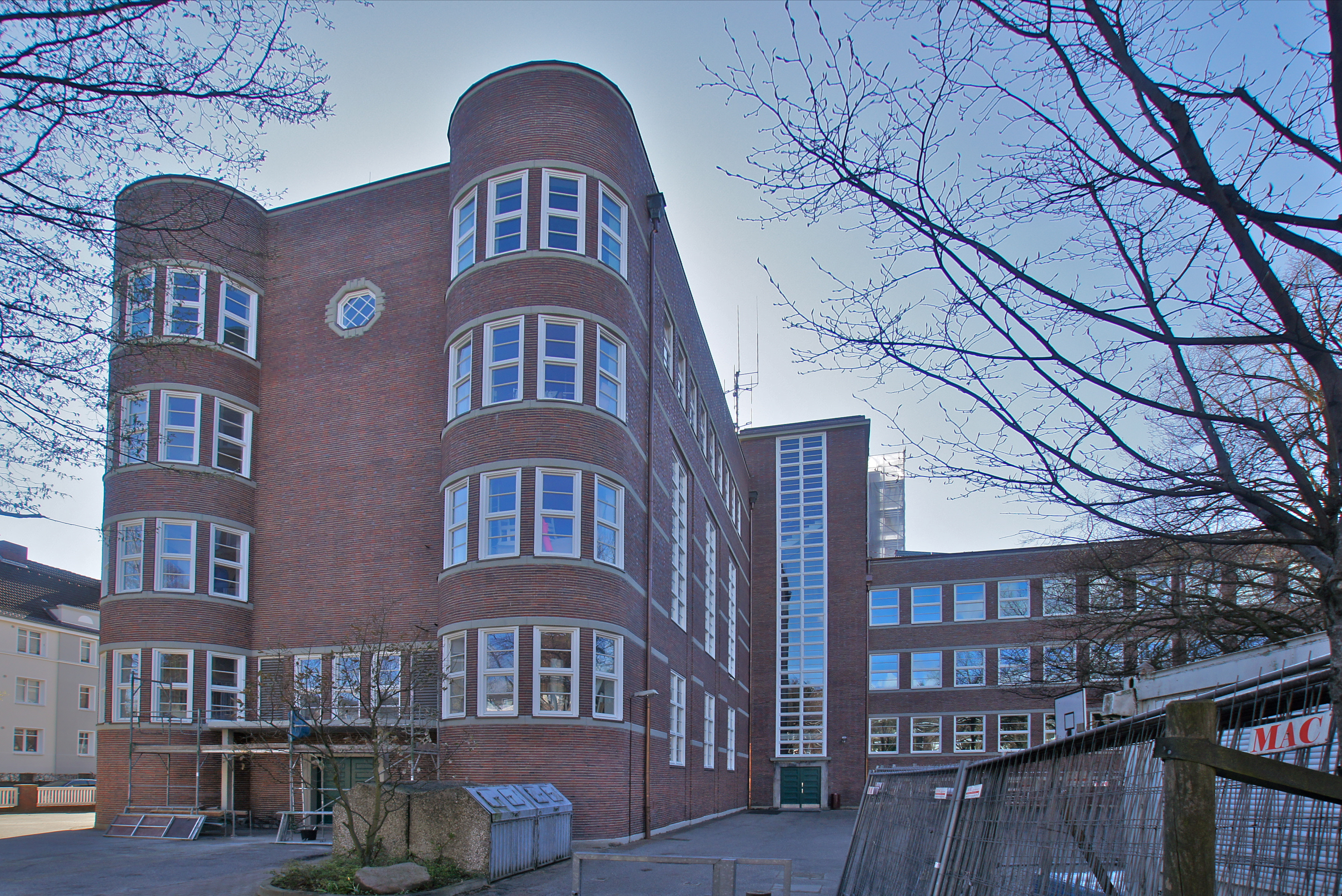 Hamburg (Fuhlsbüttel), Germany: School designed by Firtz Schumacher